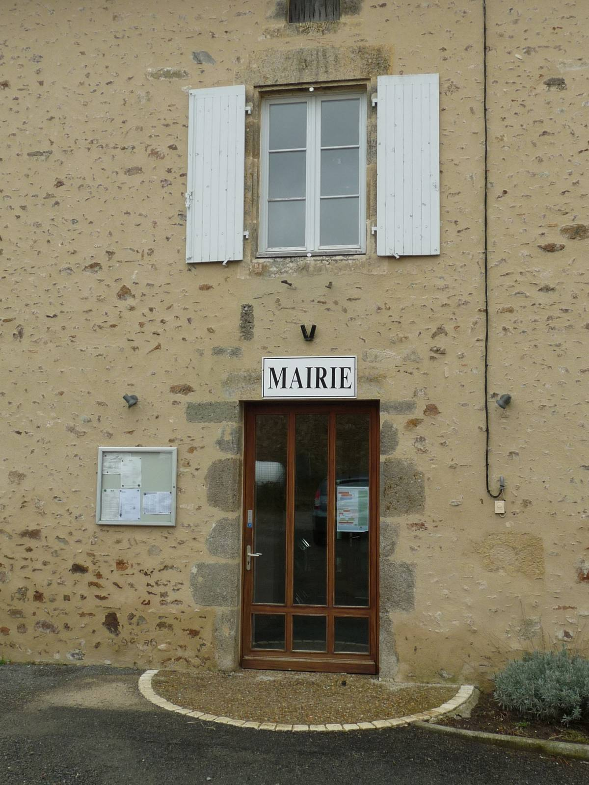 town hall